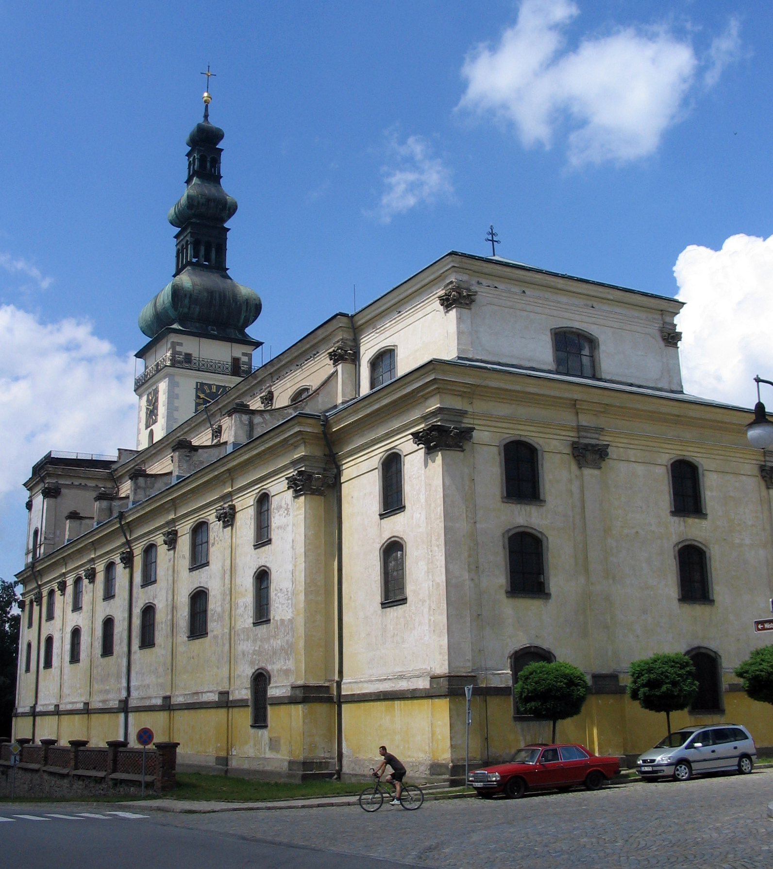 Polná church.